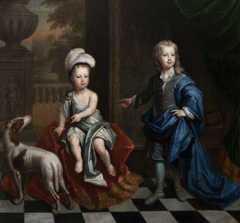 Portrait of David and Charles Colyear